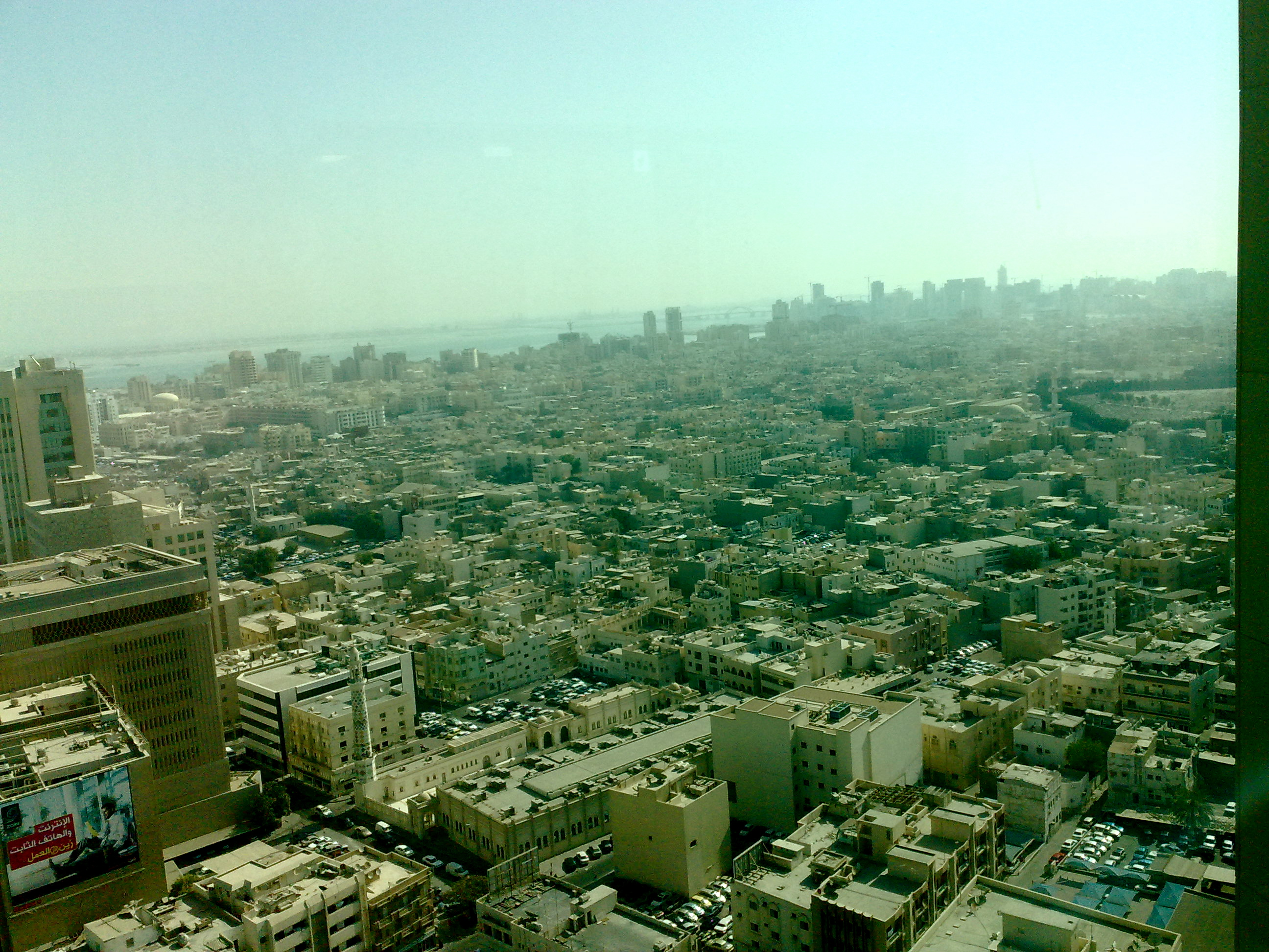 Aerial view of Manama, Bahrain